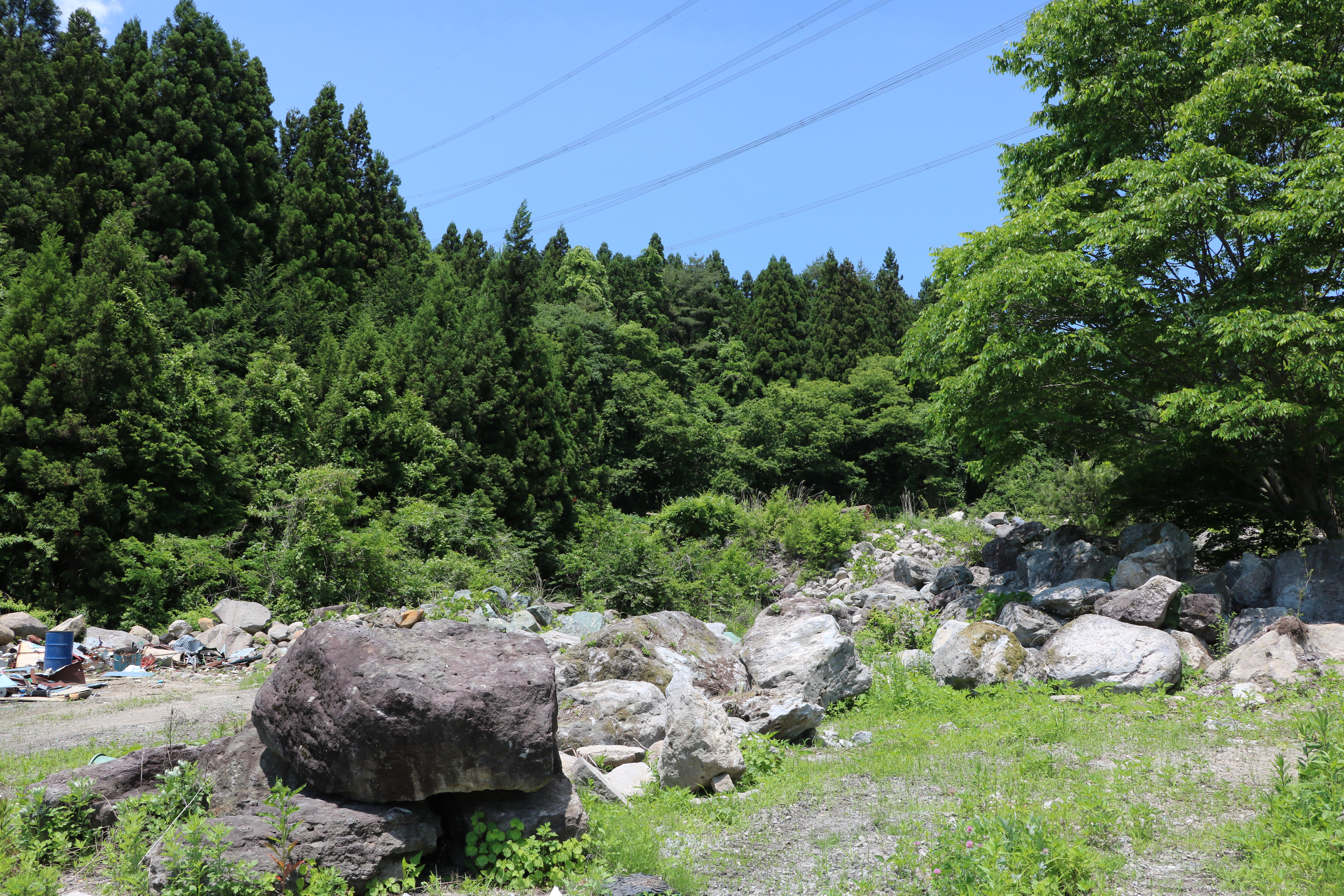 Trace of construction work for Nakayama district vertical shaft construction